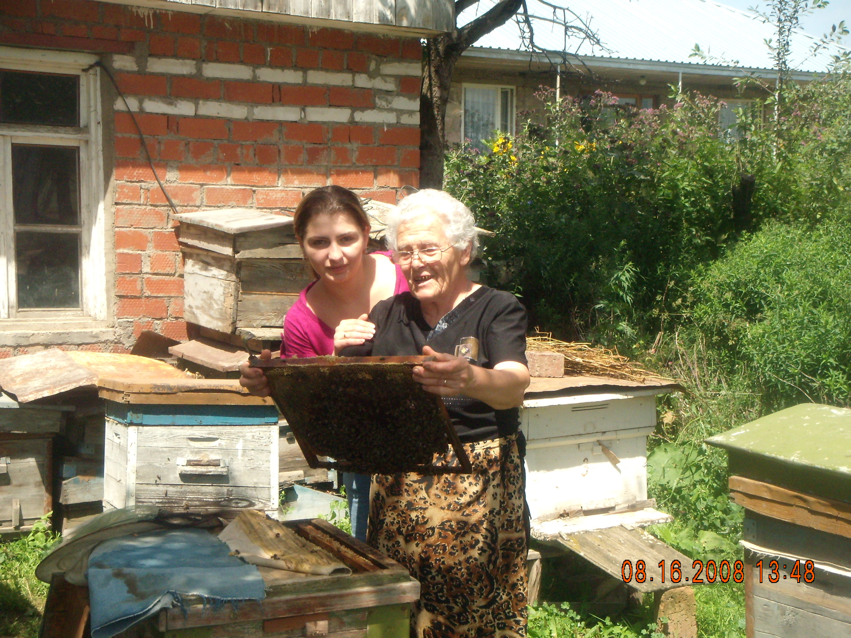 Beekeeping in Armenia.